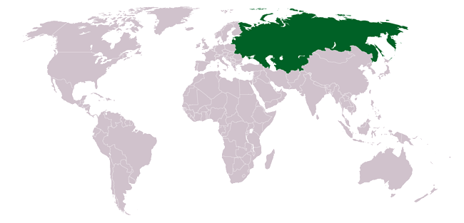 Location map of the former Soviet Union (USSR).